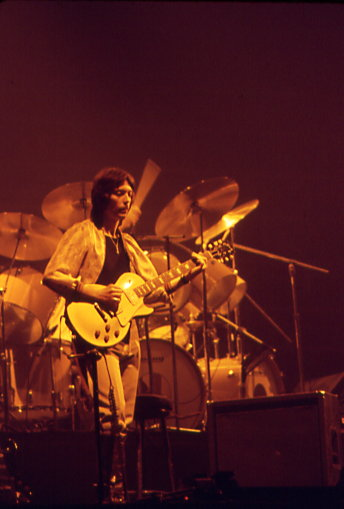 Steve Hackett MLG, Toronto, June 3,1977